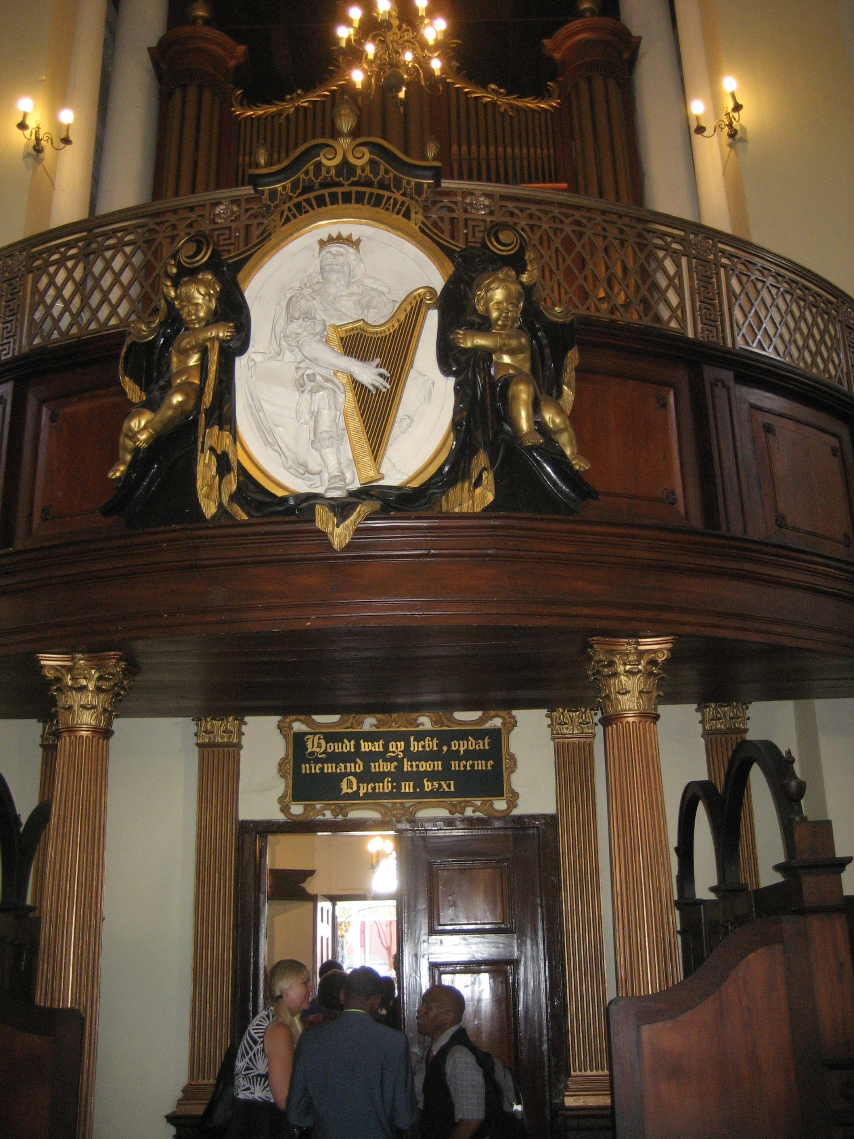 Lutheran Church, Cape Town, South Africa. Sculptor: Anton Anreith. David playing harp. Revelation 3: 11 "Hold that fast which thou hast, that no man take thy crown."